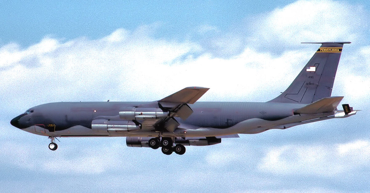 146th Air Refueling Squadron KC-135 Stratotanker 1993